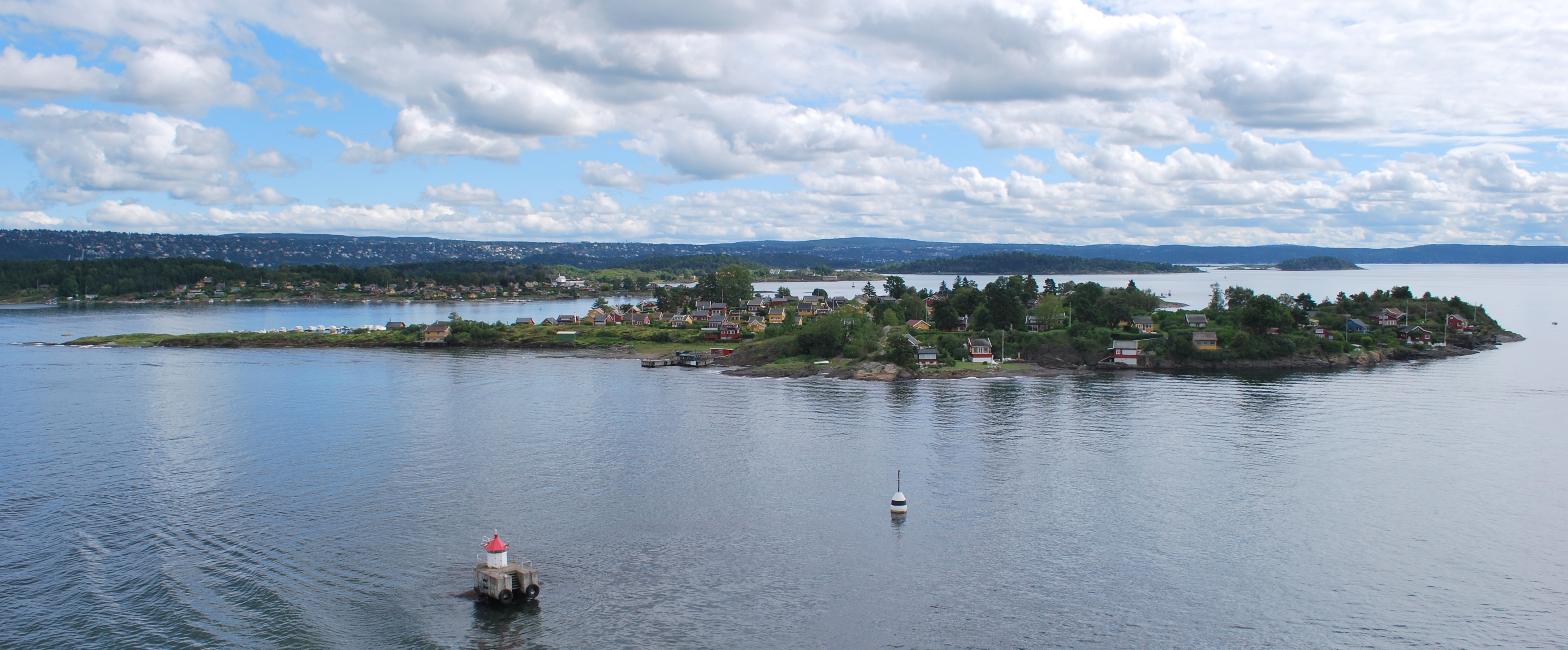 Island Nakholmen, Oslo, seen from west